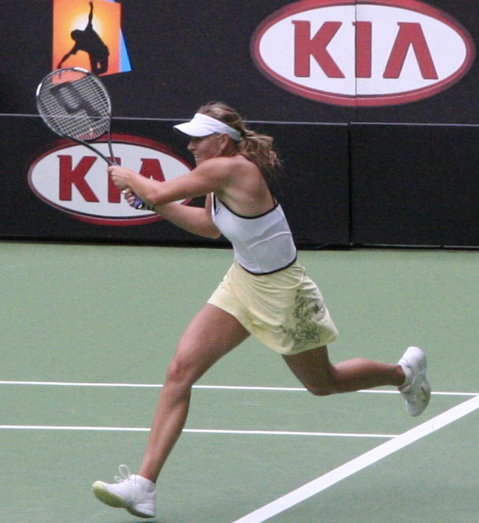 Maria Sharapova at the 2007 Australian Open, during her second-round match.